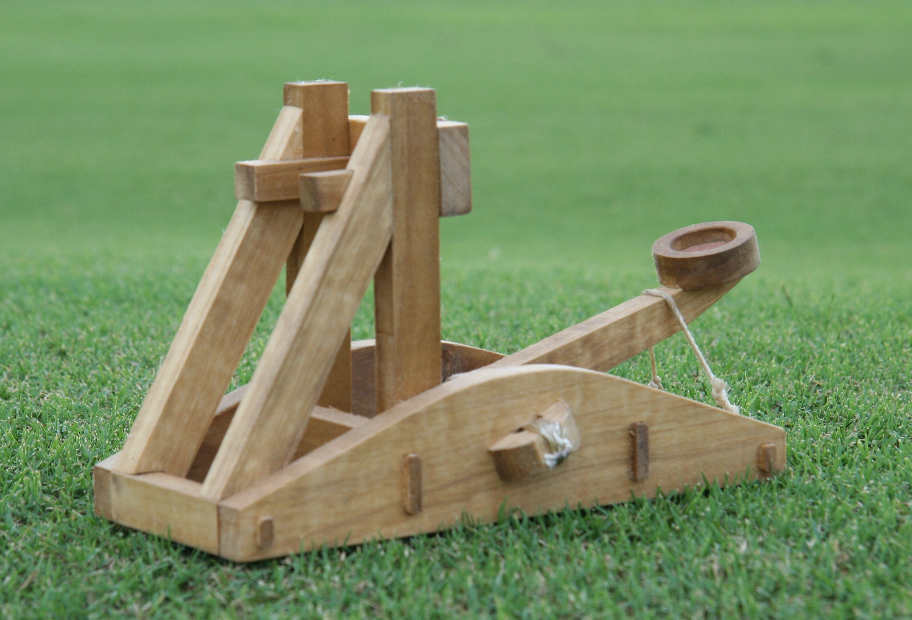 A desktop-sized model of a medieval onager siege weapon, built from a kit available on-line.